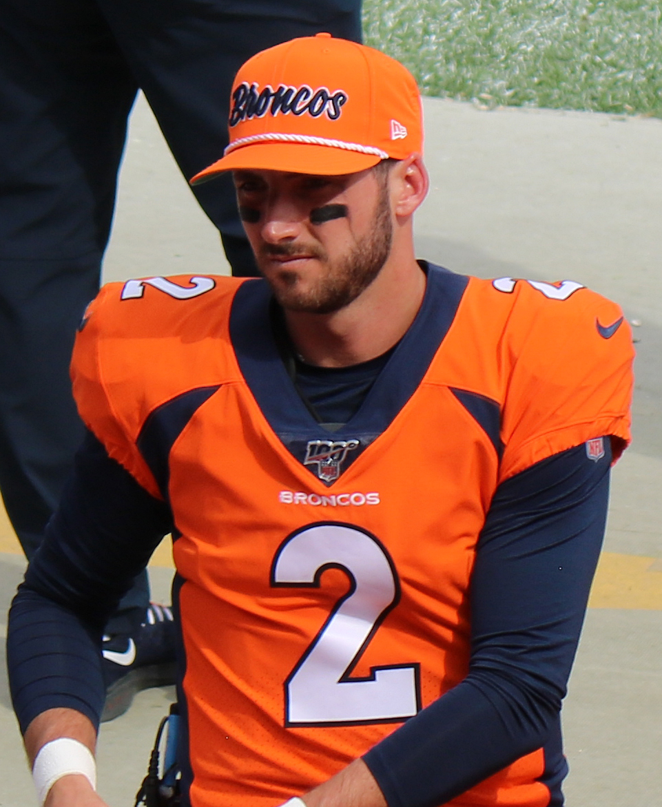 Brandon Allen, a National Football League player.